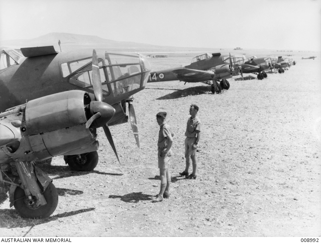 Captured French Potez 63.11 aircraft at Aleppo, Syria, in 1941.